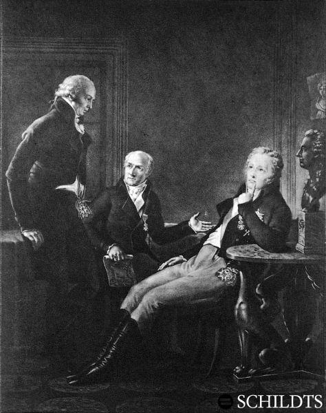 Johan Fredrik Aminoff & Gustaf Mauritz Armfelt